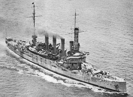 Official US Navy photo taken from NavSource (